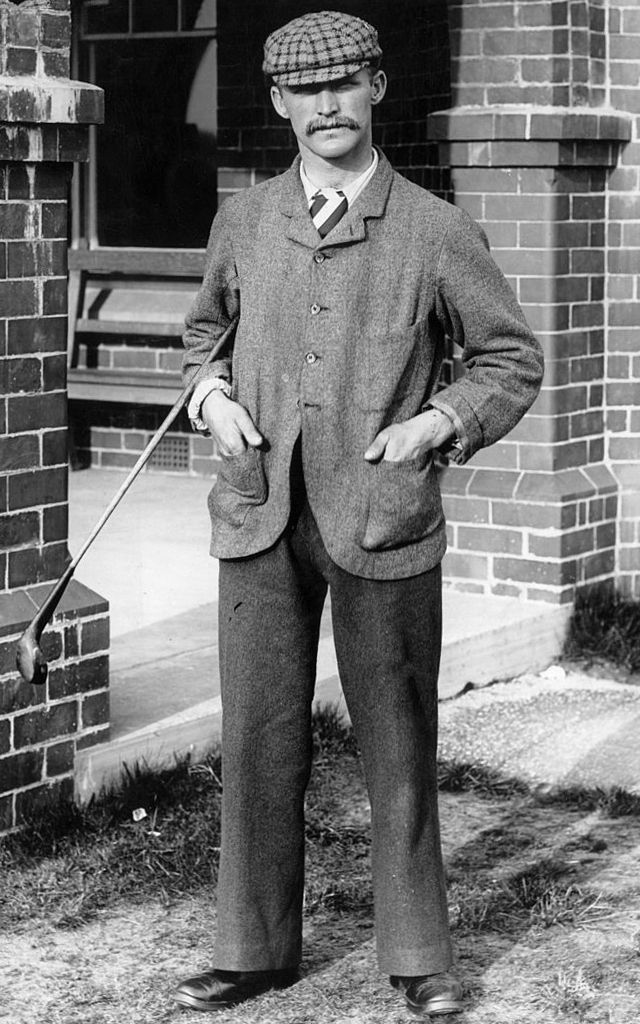 circa 1900: Golfer John H Taylor (1871 - 1963)